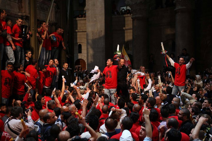 Christians Celebrate easter in jerlusalem